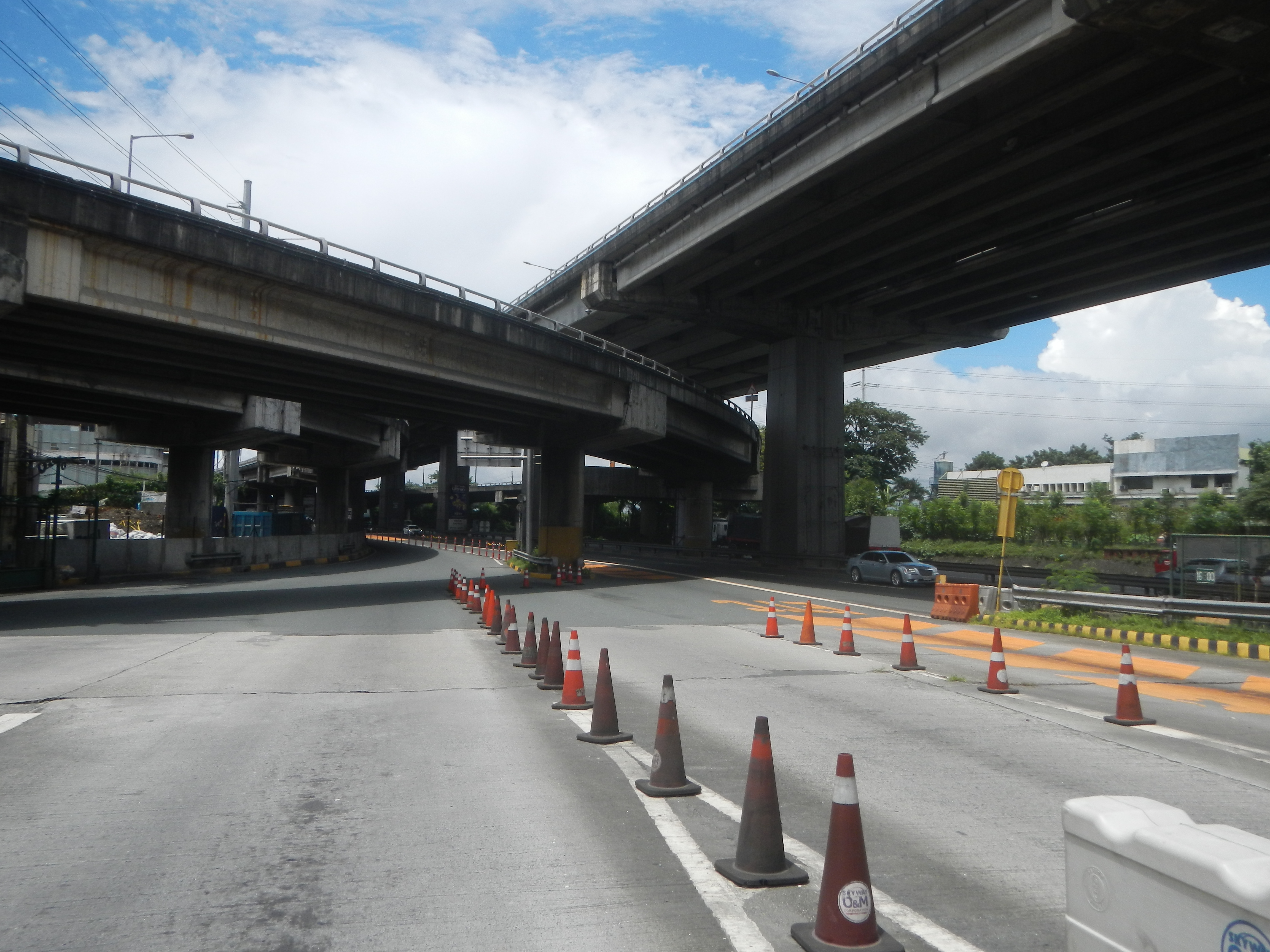 SM City Bicutan Bicutan Interchange Service Road 14°29'13"N 121°2'43"E SLEX - Bicutan Exit 14°29'13"N 121°2'41"E General Santos Avenue 14°29'21"N 121°3'12"E Bicutan Interchange-Pedestrian footbridge (East Sevice Road-West Service Road-Doña Soledad Avenue-General Santos Avenue, South Luzon Expressway, Don Bosco, Parañaque City and Bicutan, Taguig City) Doña Soledad Avenue (Better Living, Don Bosco and Sun Valley, Parañaque City) in Districts and barangays Don Bosco 14°28'54"N 121°1'33"E Sun Valley 14°29'29"N 121°2'1"E Marcelo Green 14°28'19"N 121°2'22"E Parañaque City from Doña Soledad Avenue from Dr. A. Santos Avenue formerly called (and still known locally as) Sucat Road Don Bosco 14°28'48"N 121°1'31"E and Taguig City (Note: Judge Florentino Floro, the owner, to repeat, Donor Florentino Floro of all these photos hereby donate gratuitously, freely and unconditionally Judge Floro all these photos to and for Wikimedia Commons, exclusively, for public use of the public domain, and again without any condition whatsoever).